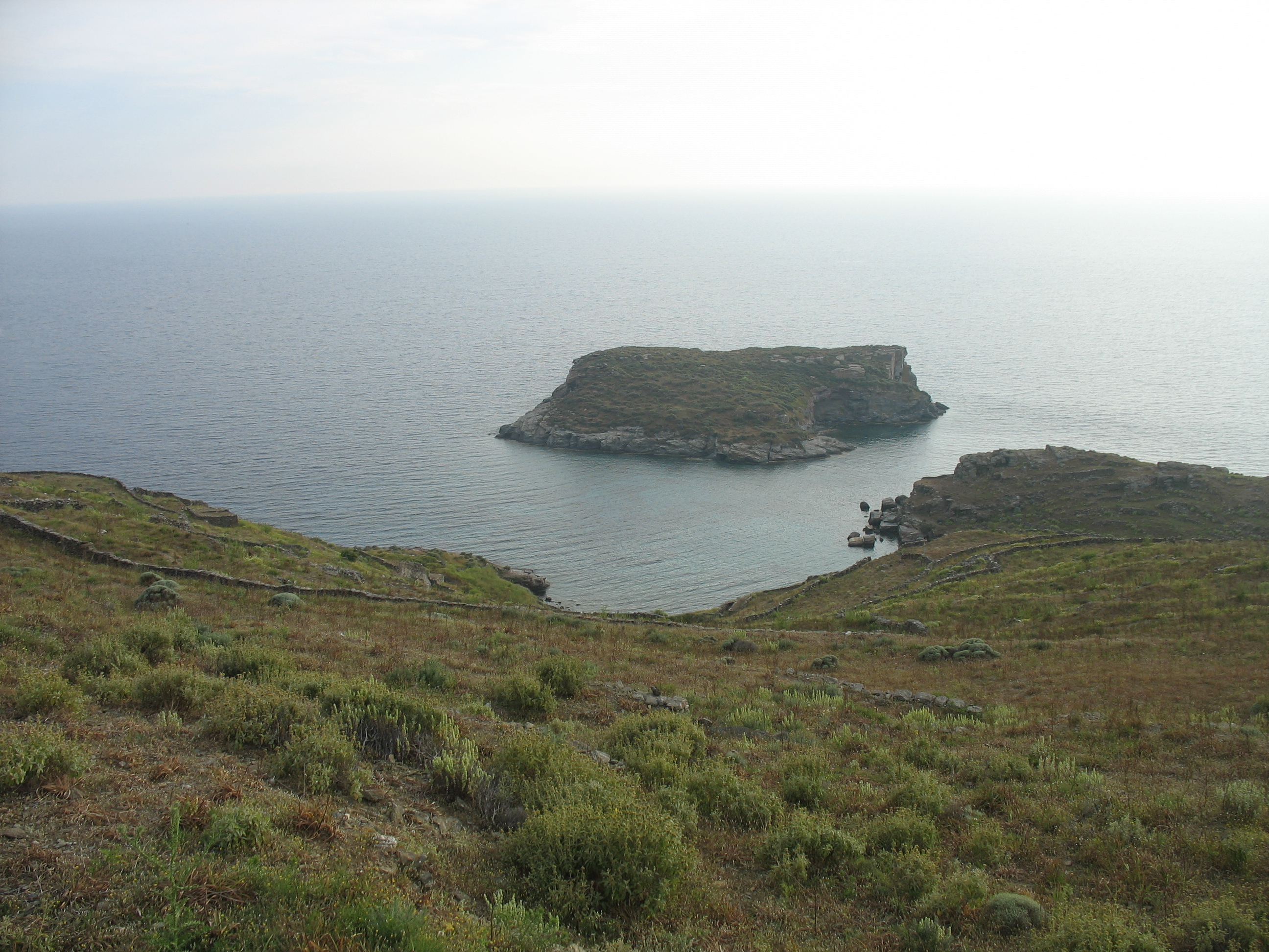 View of the formerly connected islet, Vryokastri or Vriokastraki, the ancient harbour from Vryokastro, the location of the ancient capital city of the island